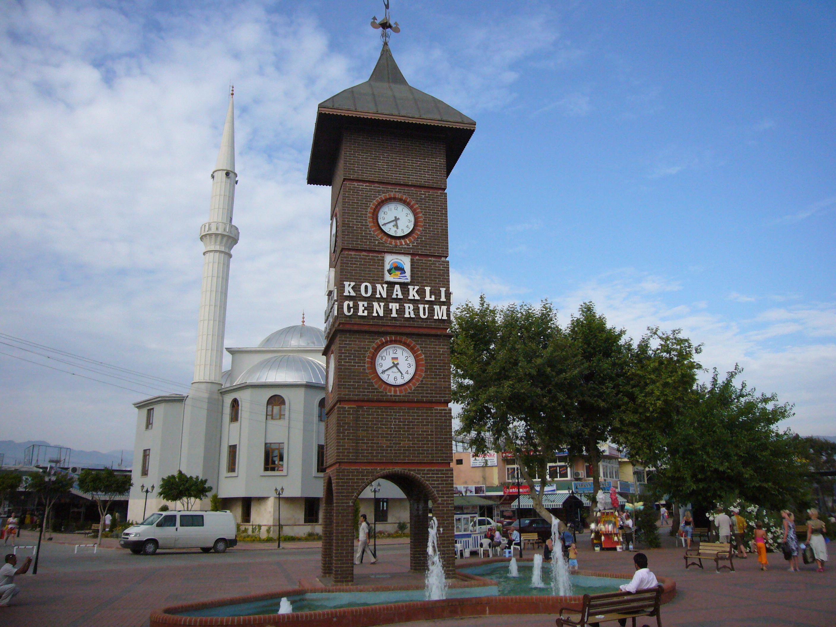 Konakli Centrum with Konakli Mosque in the background in Konakli town, Alanya District, Antalya Province, Turkey